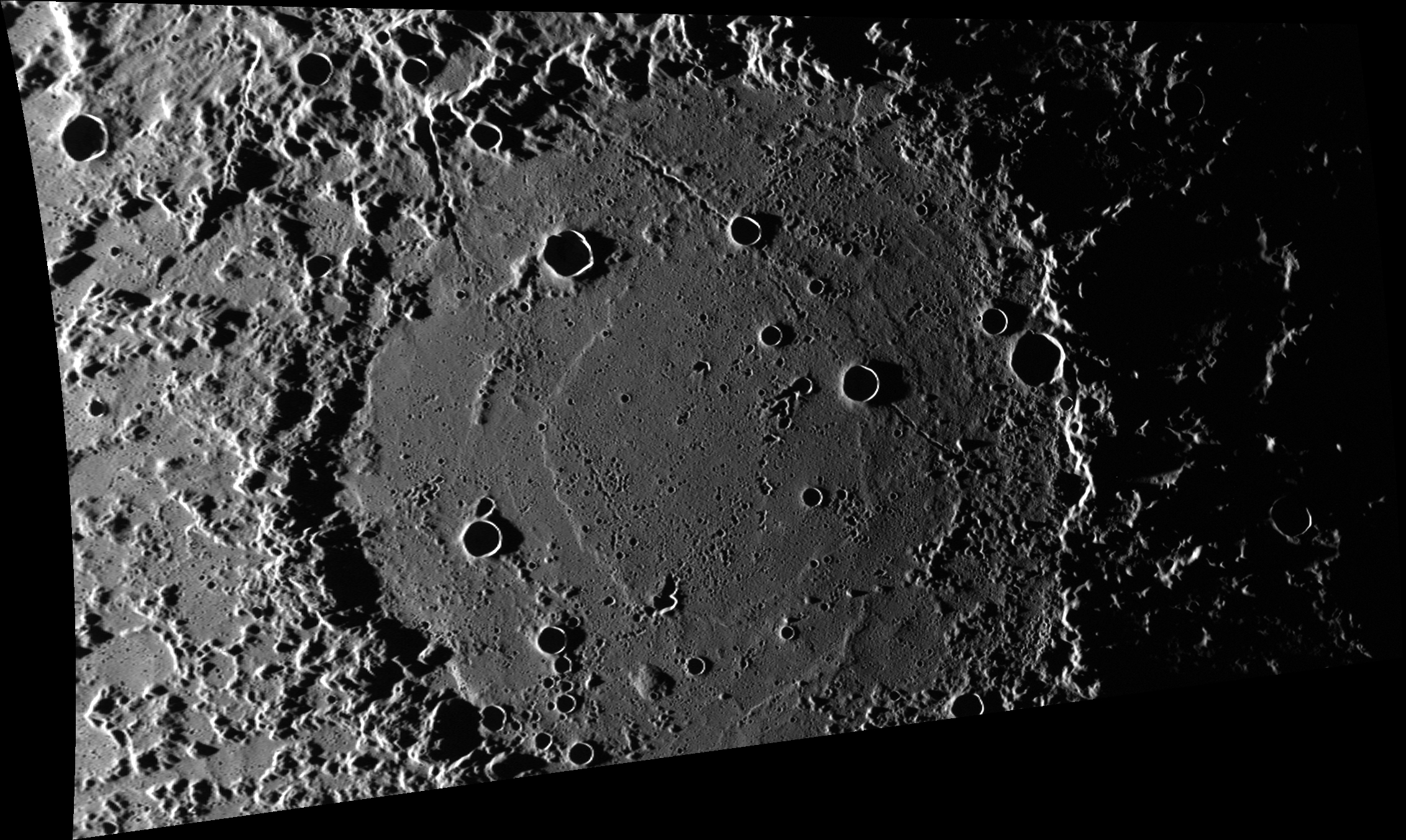 Date acquired: June 21, 2013 Image Mission Elapsed Time (MET): 14100380 Image ID: 4296279 Instrument: Wide Angle Camera (WAC) of the Mercury Dual Imaging System (MDIS) WAC filter: 7 (748 nanometers) Center Latitude: 43.78° Center Longitude: 202.5° E Resolution: 239 meters/pixel Scale: Van Eyck crater is about 270 km (168 mi.) in diameter Incidence Angle: 86.7° Emission Angle: 55.3° Phase Angle: 142.0° North is up in this image. Of Interest: The low Sun elevation in this scene emphasizes the topography of Van Eyck crater. The rim of Van Eyck has been profoundly cratered by material ejected from the Caloris basin. Smooth plains fill the floor of Van Eyck, but they too have been affected by cratering, from large primary impacts to deep, linear incisions by secondary crater chains. Jan Van Eyck was a Flemish painter who lived from about 1390 to 1441 CE. The stratigraphic unit comprising the ejecta from the Caloris basin is named the Van Eyck Formation. The Van Eyck Formation is regarded by scientists as equivalent to the Fra Mauro Formation that surrounds the Moon's Imbrium basin. The Van Eyck Formation is characterized by elongated hilly ridges and grooves that are sub-radial to the Caloris Basin, and which are extensively embayed by smooth plains. This image was acquired as part of MDIS's high-incidence-angle base map. The high-incidence-angle base map complements the surface morphology base map of MESSENGER's primary mission that was acquired under generally more moderate incidence angles. High incidence angles, achieved when the Sun is near the horizon, result in long shadows that accentuate the small-scale topography of geologic features. The high-incidence-angle base map was acquired with an average resolution of 200 meters/pixel.